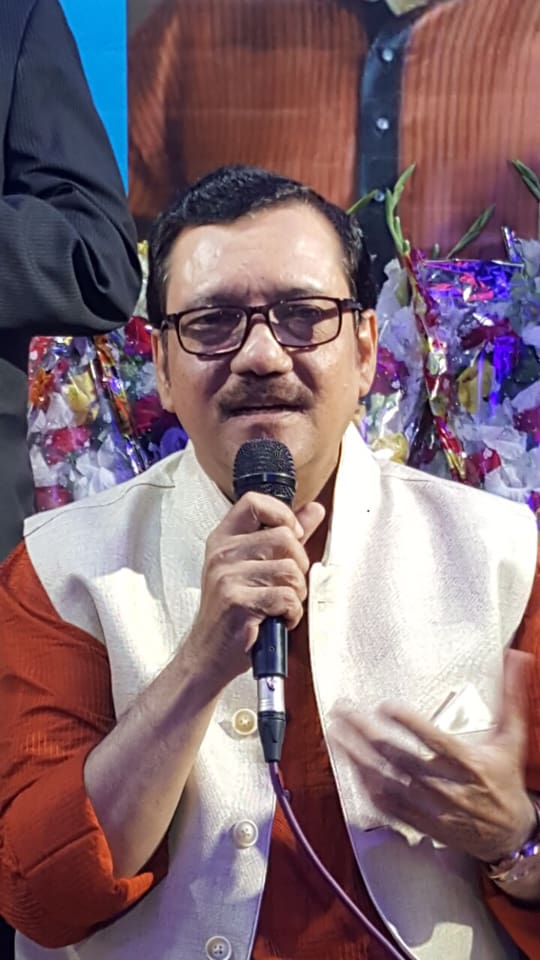 রবীন্দ্রসঙ্গীত শিল্পী